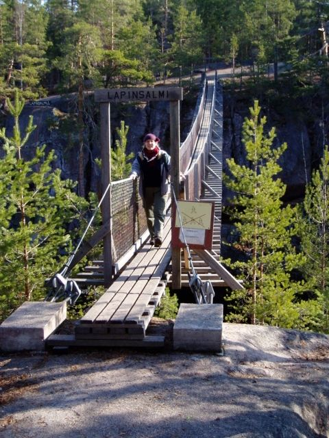 A suspension bridge at Repovesi National Park in Kouvola, Finland